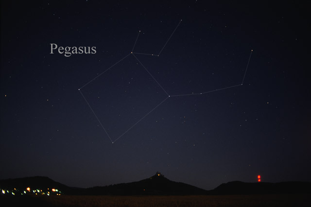 Photography of the constellation Pegasus, the winged horse